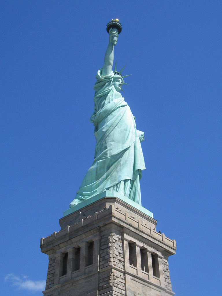 The Statue of Liberty as viewed from the ground on Liberty Island.